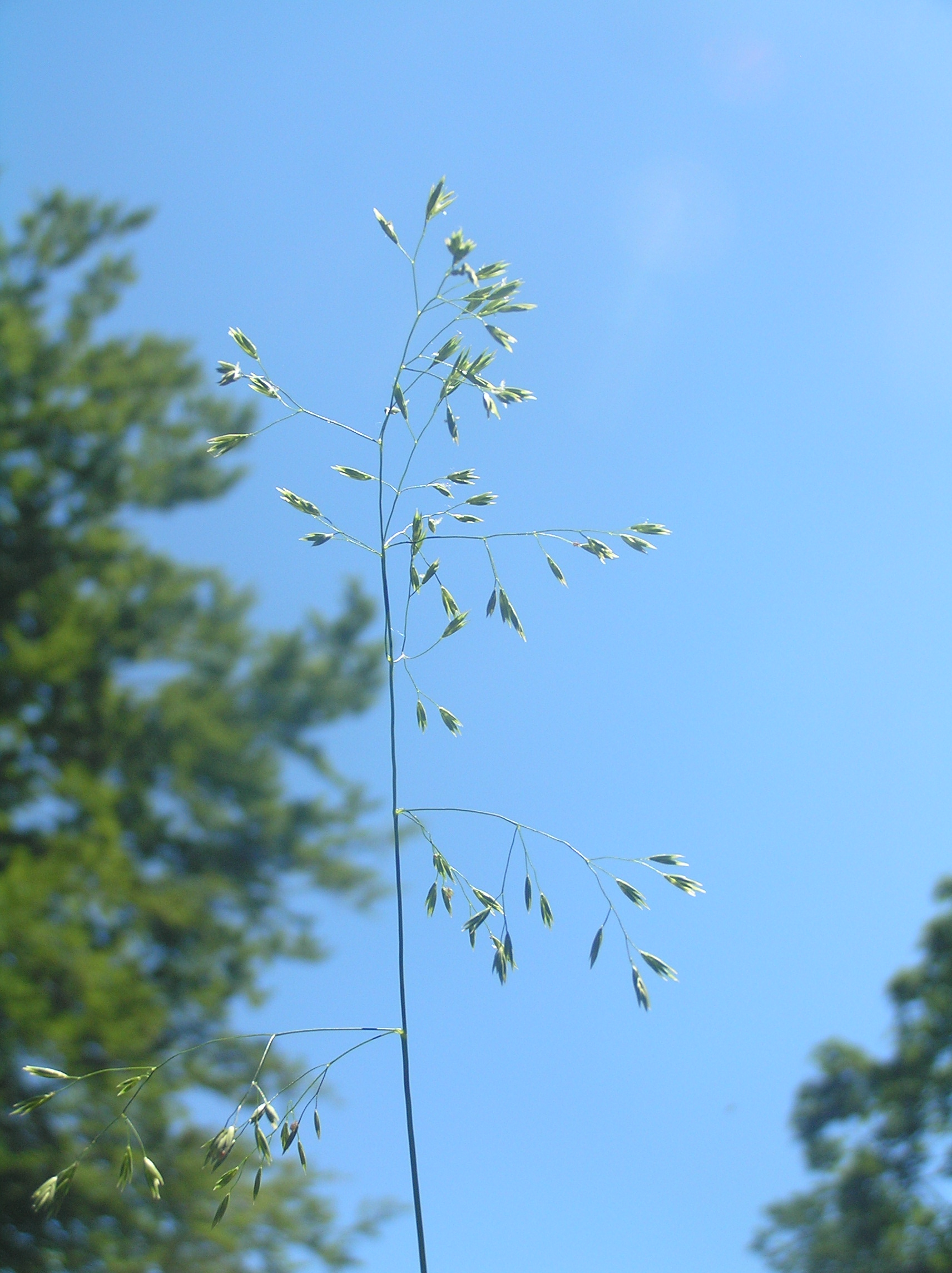 Festuca altissima, Králický Sněžník Mountains, Czech Republic